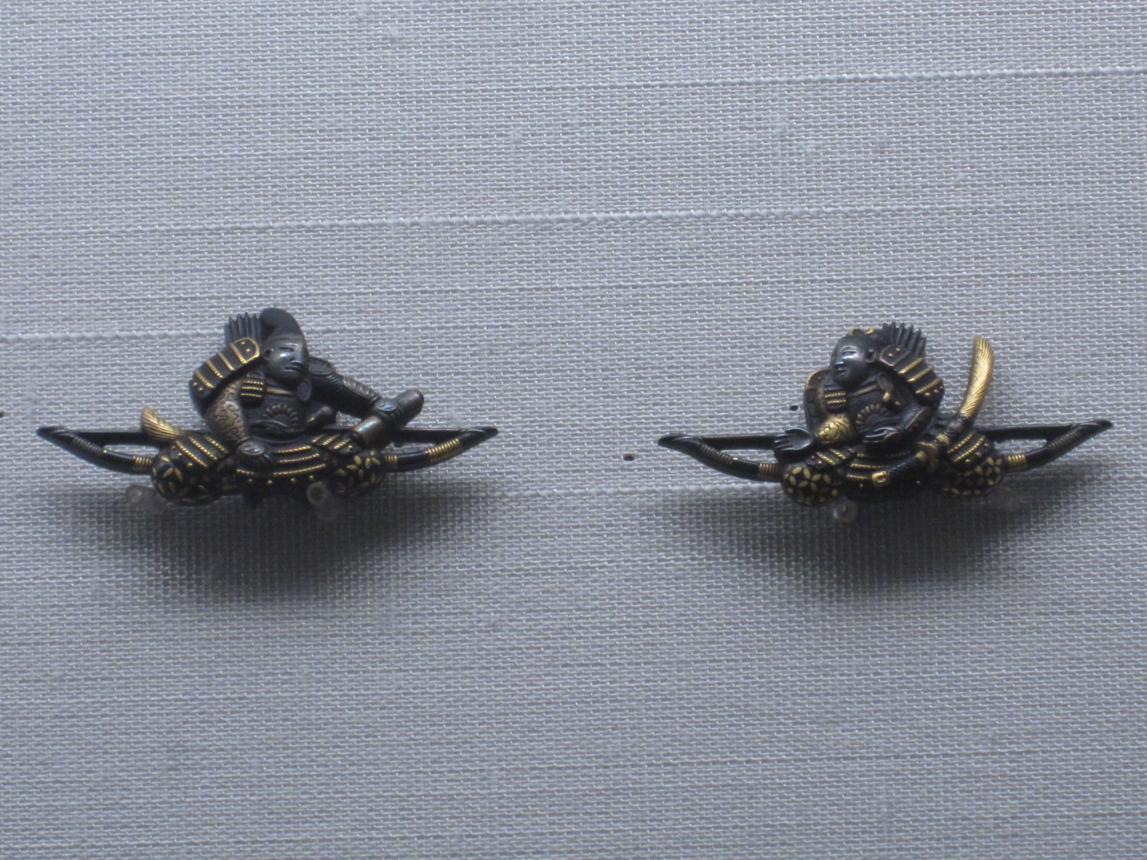 The menuki of Kusunoki Masashige bidding farewell to his son, Kusunoki Masatsura, made in 19th century, the collection of Tokyo National Museum.